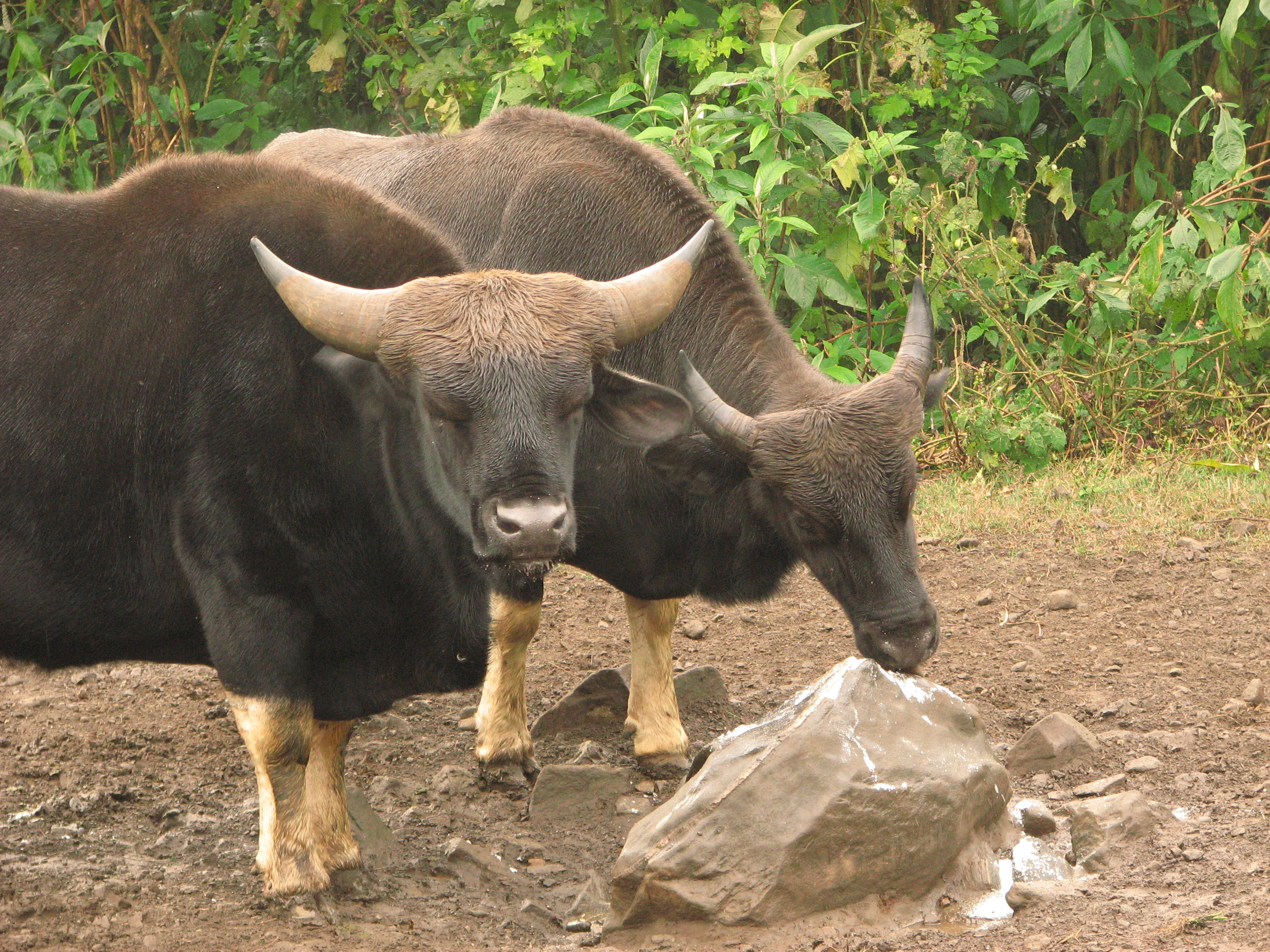 Lohit District, Arunachal Pradesh